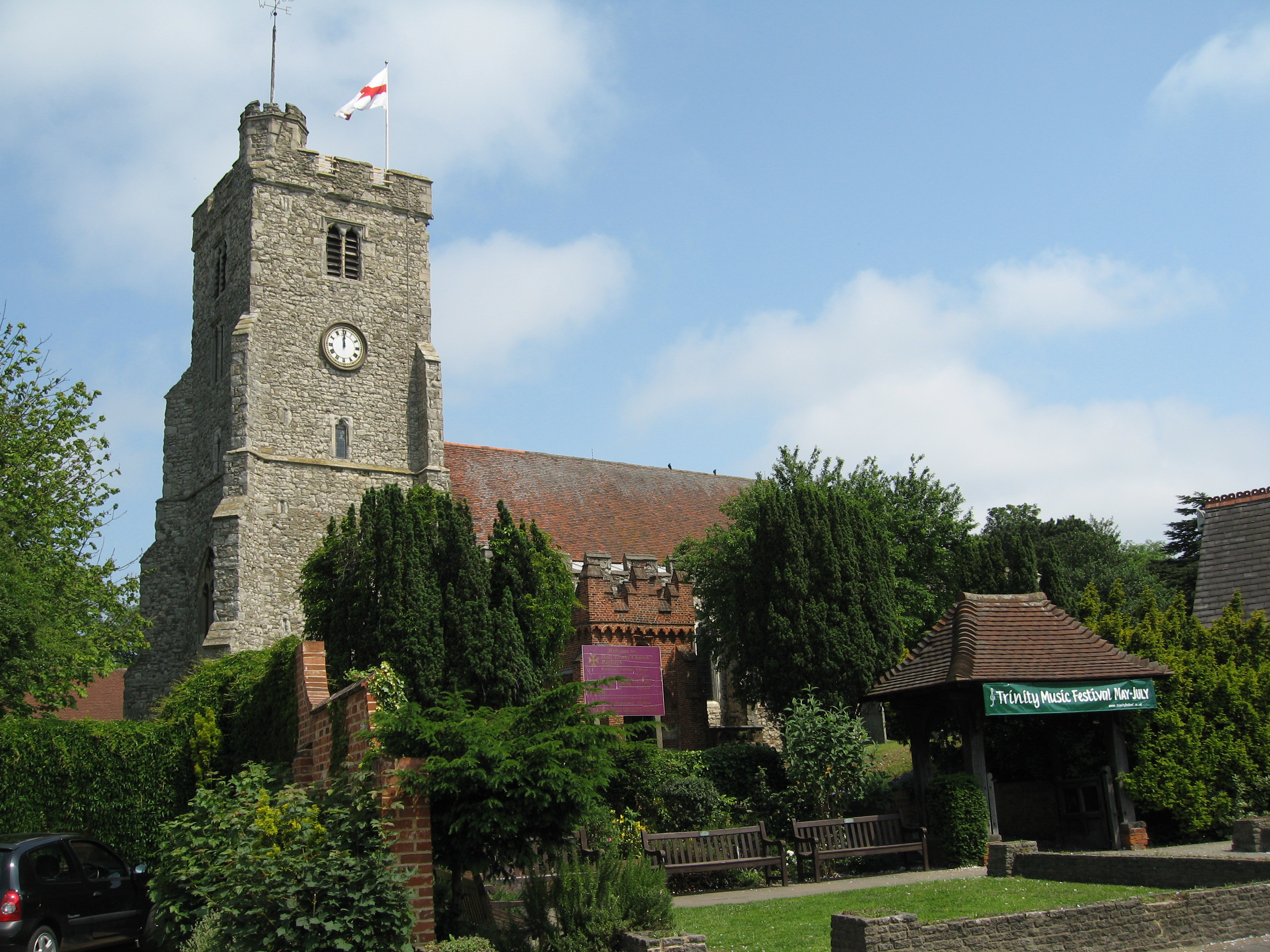 Holy Trinity Church, Rayleigh, Essex, United Kingdom. Taken on the corner of Church Street and High Street, Rayleigh.